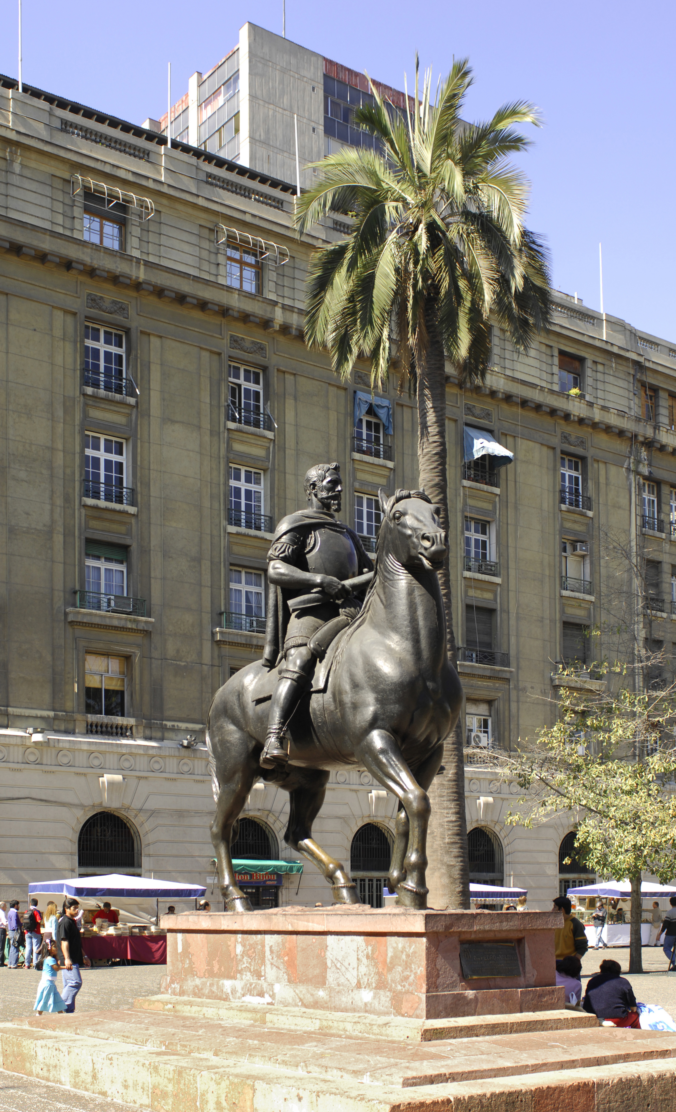 Statue of Pedro de Valdivia, Spanish Conquistador and Chile’s first Royal Governor. Located in Santiago’s Plaza de Armas.